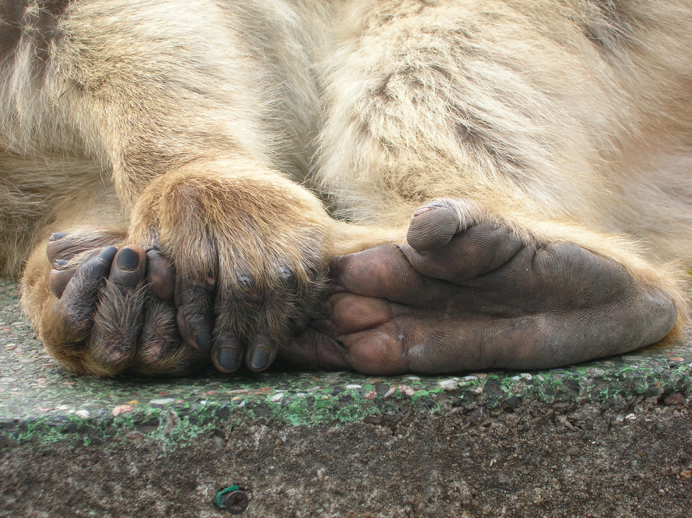 Barbary Macaque (Macaca sylvanus) feet and hands, in Gibraltar.